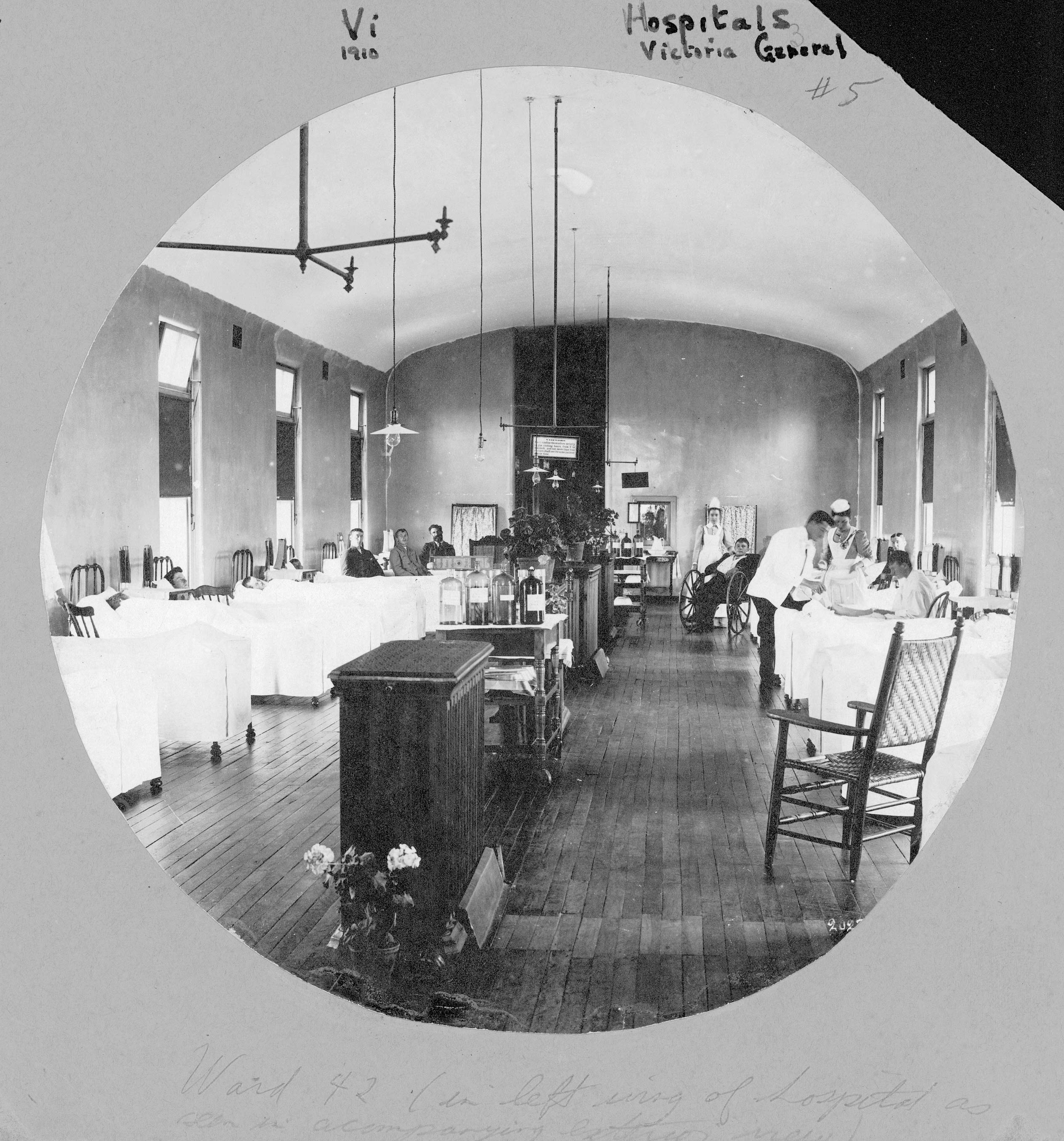 Victoria General Hospital, Ward 42, Halifax, Nova Scotia, Canada, 1910